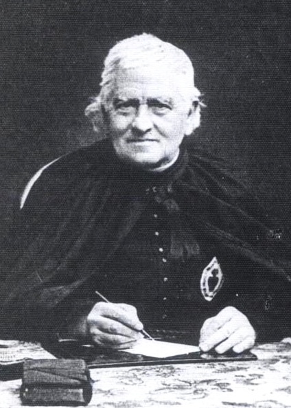 Abbé Jules Chevalier